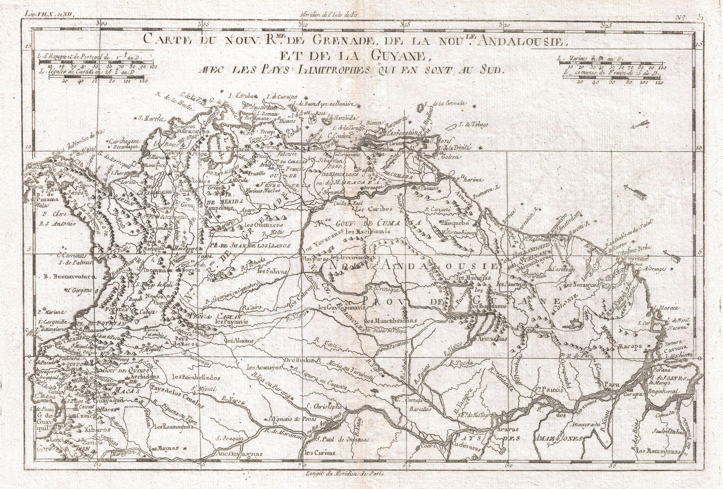 A fine example of Rigobert Bonne and Guilleme Raynal’s 1780 map of Northern South America. This map includes the area stretching from modern day Ecuador, Panama, and Columbia, to Venezuela, Guyane, Surinam, and the northern portion of Brazil. Highly detailed with river ways and mountain ranges, it also includes the mythical Lake Parime; it was here treasure hunting explorers, including Sir Walter Raleigh, once believed they could find the semi-mythical City of El Dorado. Also features important cities and ports, along with wind and ocean current directions, reefs, and other underwater dangers. Atlas de Toutes les Parties Connues du Globe Terrestre, Dressé pour l'Histoire Philosophique et Politique des Établissemens et du Commerce des Européens dans les Deux Indes .